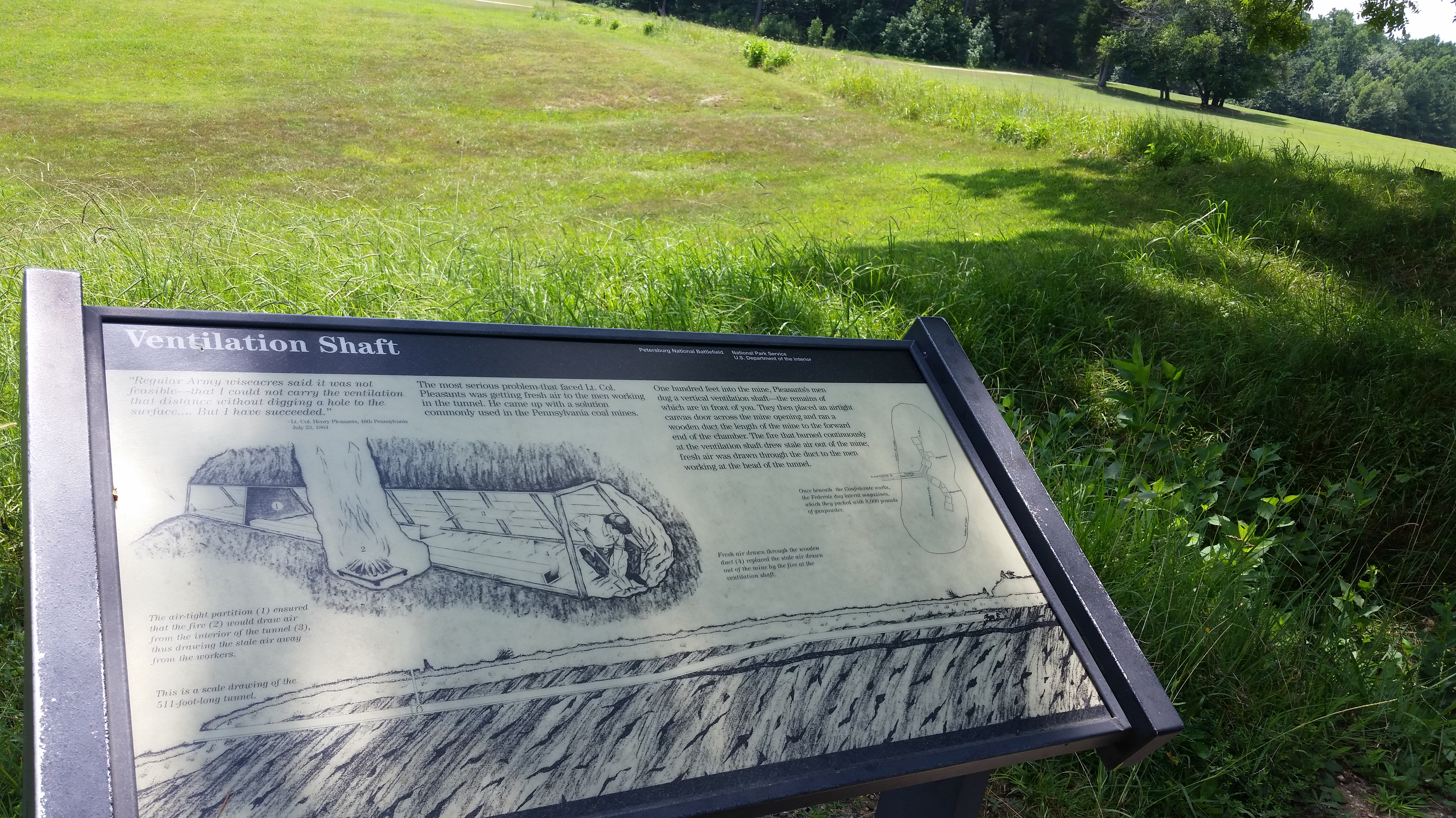 NPS marker deicting details of the mine